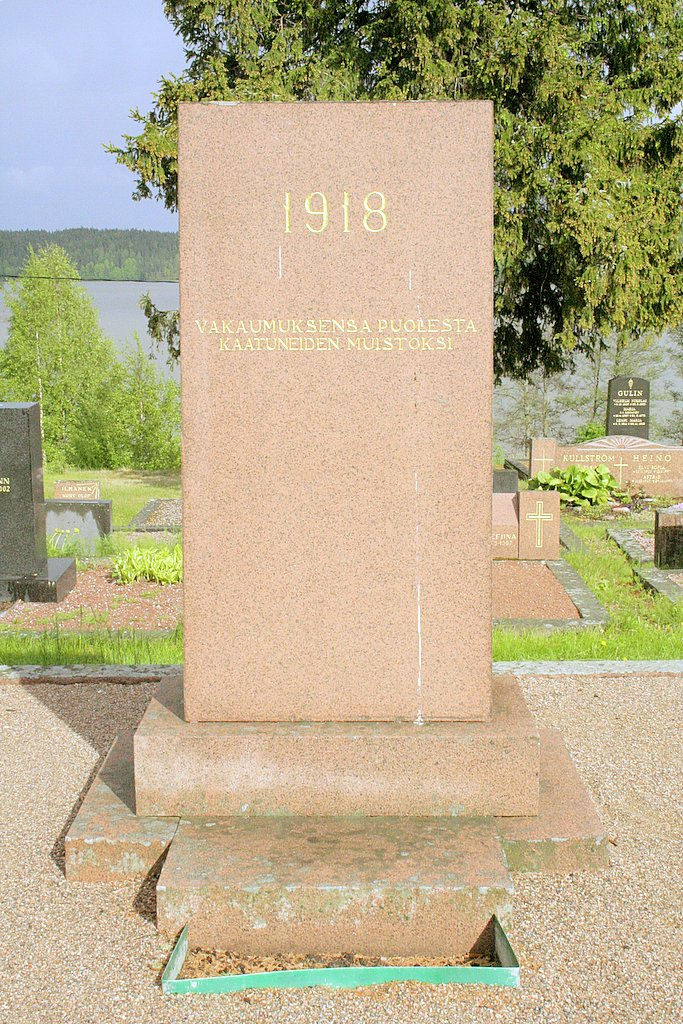 Statue of those, who fell for their conviction After the collapse of the provisional government of Russia both the labour unionists and the bourgeoisine and peasants founded civil guards to maintain public order as they had already done in 1905 once earlier. As the result of this the escalation after led into armed conflicts. The government, the Senate of Finland, which had declared Finland independent 6th December, 1917, declared the protecting guards the official army. After that the labour movement began a mutiny against the Senate, which resulted to a civil war from the end of January to the beginning of May, 1918. The Senate was assisted by the Germans, whose main force landed in Hanko in the beginning of April, 1918 and the support force in Loviisa. The support troop led by colonel Otto von Brandenstein was heading to Lahti. One battallion went through Myrskyla and Orimattila towards Lahti. The main battle of the Myrskyla's red guards took place 13th April, 1918 in Orimattila. Practically no prisoners of war were taken. Because of the controversial interpretation of the result of the mutiny to the process of becoming independent, the deceased reds had their memorial stones in the cemeteries generally in the 1960's, often projected by the labour party local committees.